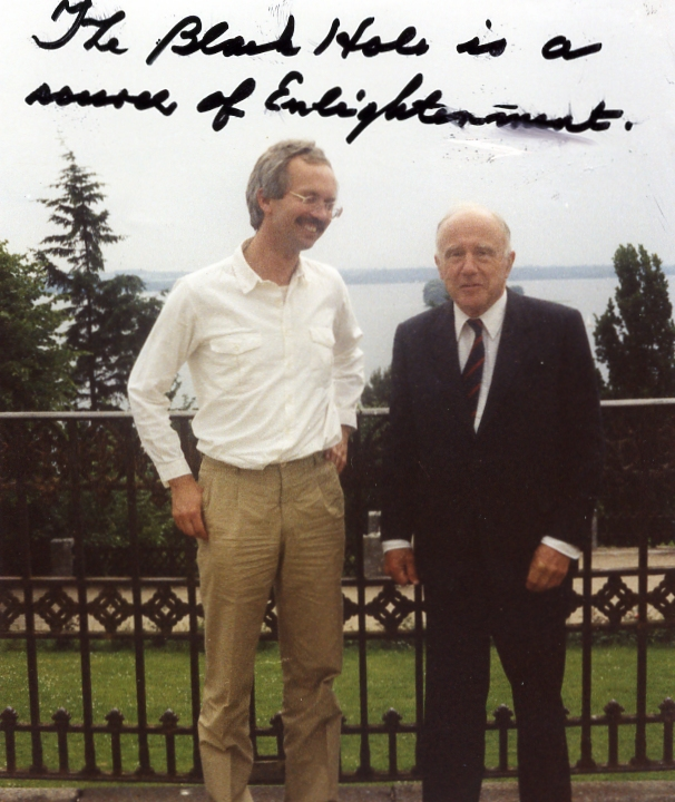 together with John Archibald Wheeler in front of lake in Holstein before the Hermann Weyl-Conference 1985 in Kiel, Germany